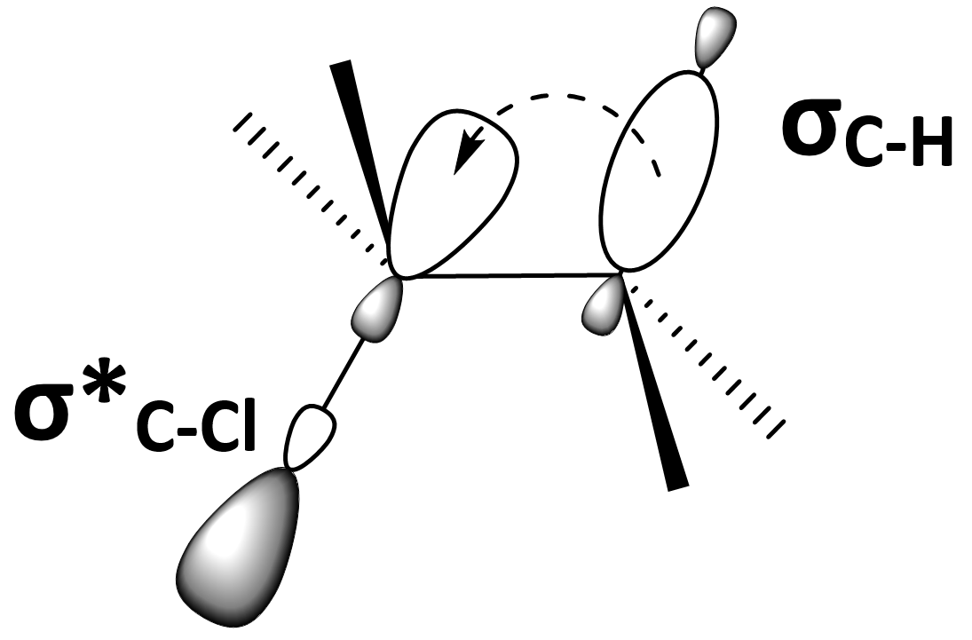 C-H bonding orbital mixing with a C-X anti-bonding orbital through hyperconjugation